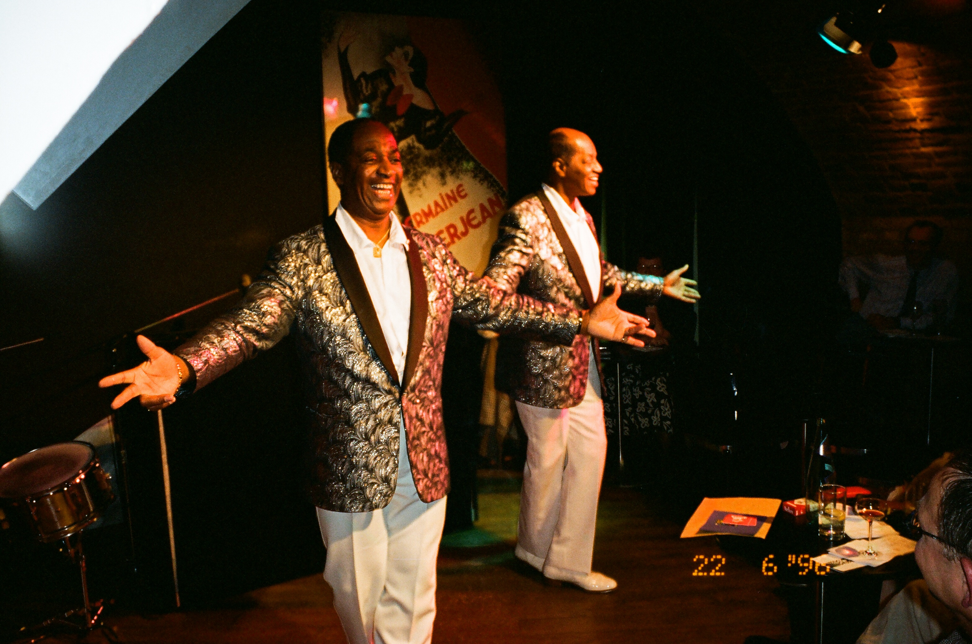 The Clark Brothers ending one of their shows at Tigerpalast. Steve on the left, Jimmy on the right side.